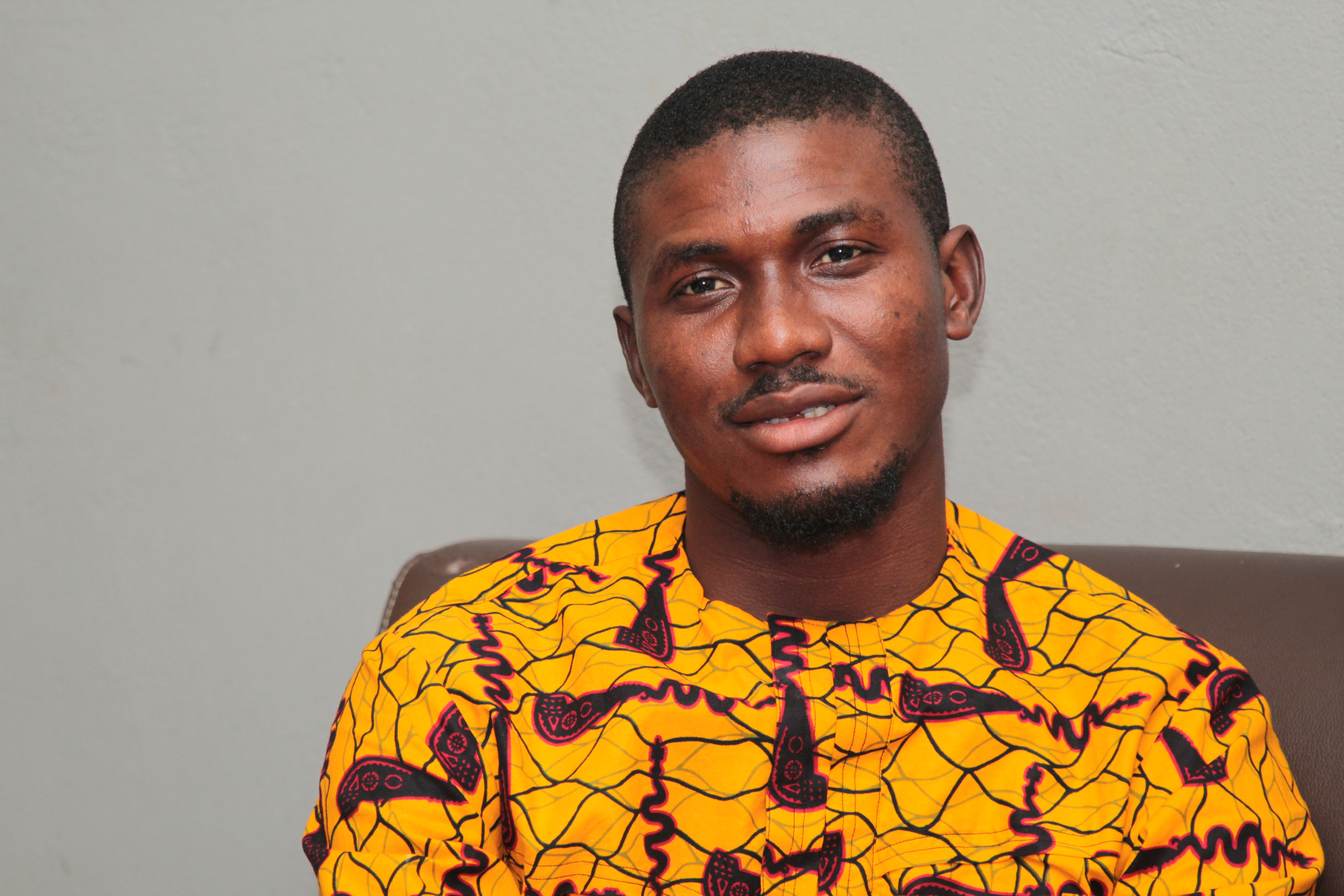 Promise Uzoma Okoro